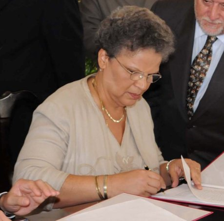 Michèle Pierre Louis, Prime Minister of Haití, at the Pink House in Argentina.